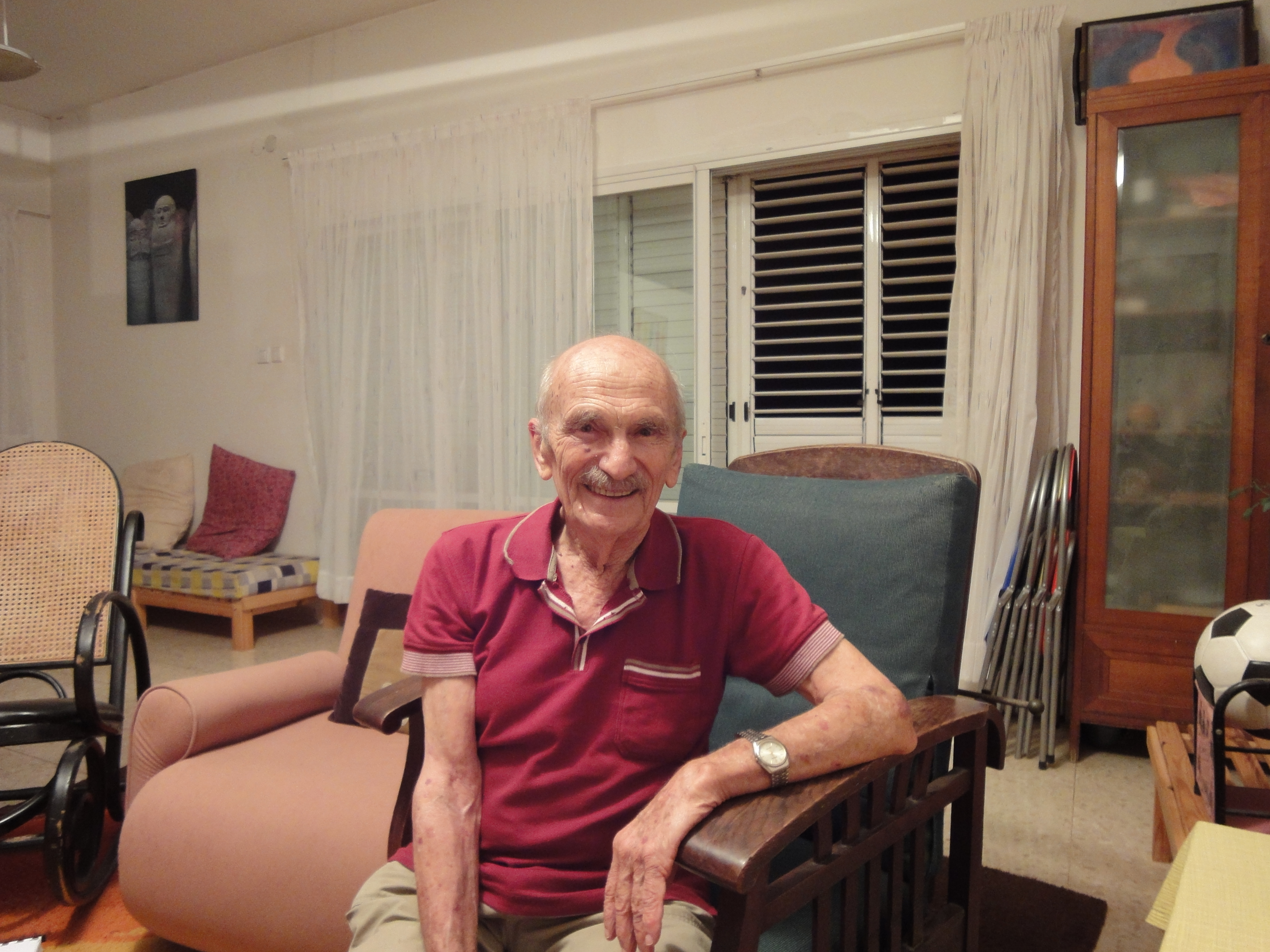 Prof. Uzzi Ornan at his home